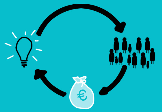 Crowdfunding